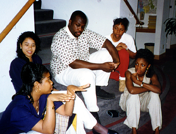 Dr. Dawn Lott-Crumpler, Tasha Inniss, Darryl Corey, Flory Holmes, Willette Johnson At the Conference for African American Researchers in the Mathematical Sciences (CAARMS), Mathematical Sciences Research Institute (MSRI), Berkeley, California in June 1995.